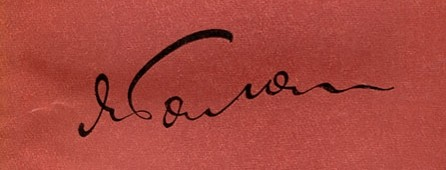 Signature of the Ukrainian anti-Fascist writer Yaroslav Halan